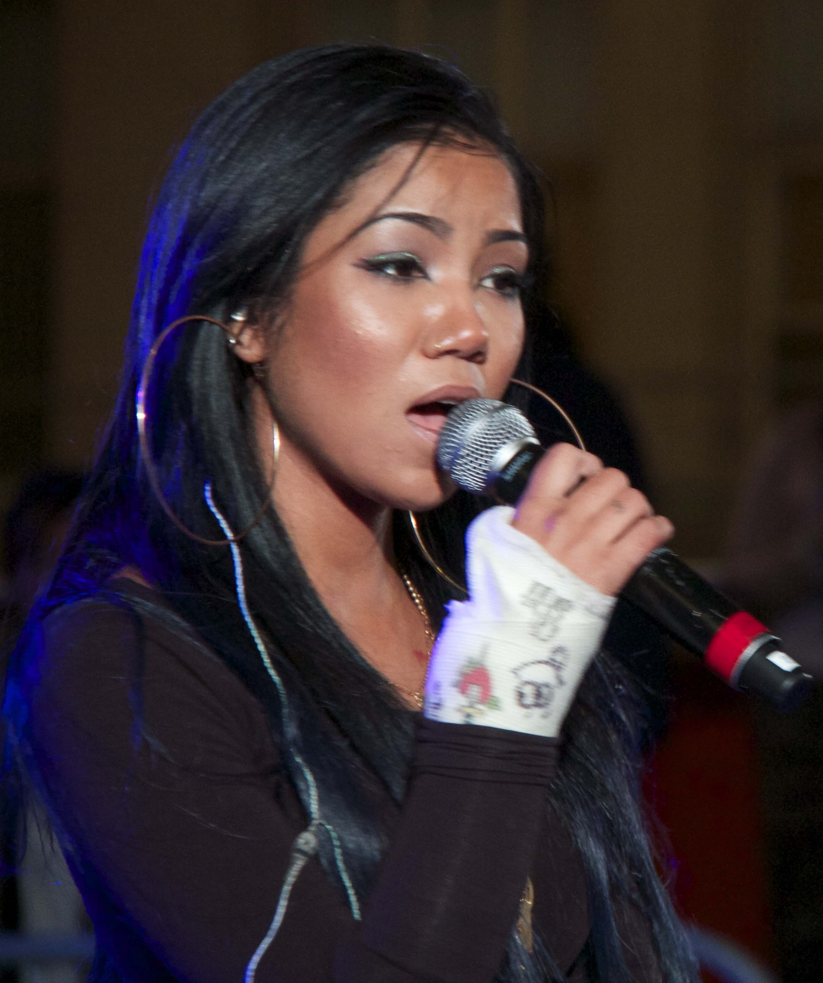 Jhené Aiko performing at the Manifesto Festival on September 22, 2013 in Toronto, Canada.